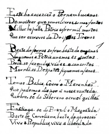 Panfleto distribuído pelos envolvidos no movimento confederado da Confederação do Equador